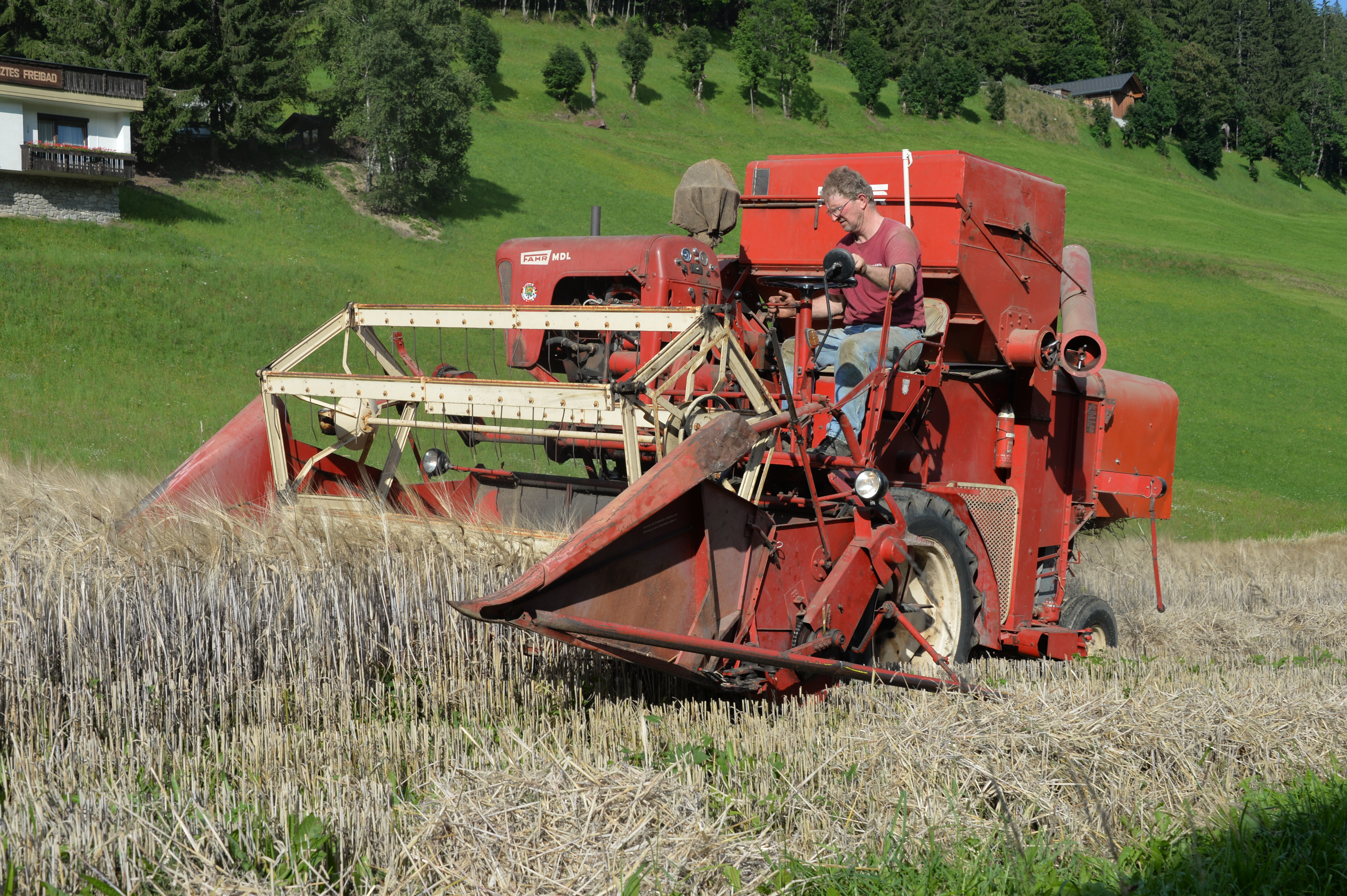 Fahr MDL combine harvester in a barley field at Liesing, municipality Lesachtal, district Hermagor, Carinthia / Austria / EU